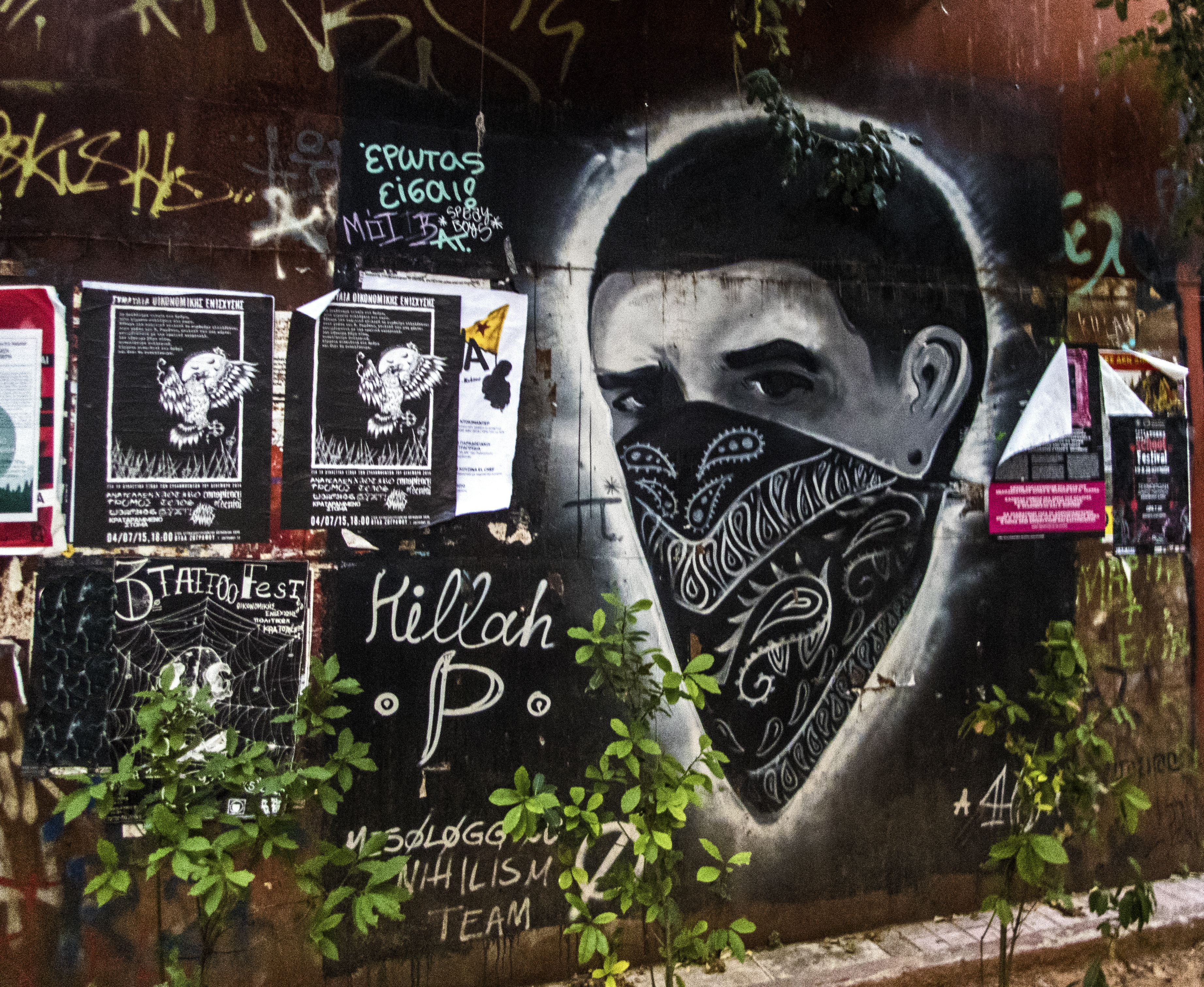 On 17 September 2013, Pavlos and his friends were at a café in Keratsini, western Athens, watching a football match. He was threatened by members of Golden Dawn who were ringing up for more people to come round. Thirty Golden Dawn members were waiting outside the café, where Pavlos stood up to them. Roupakias stabbed him through the heart